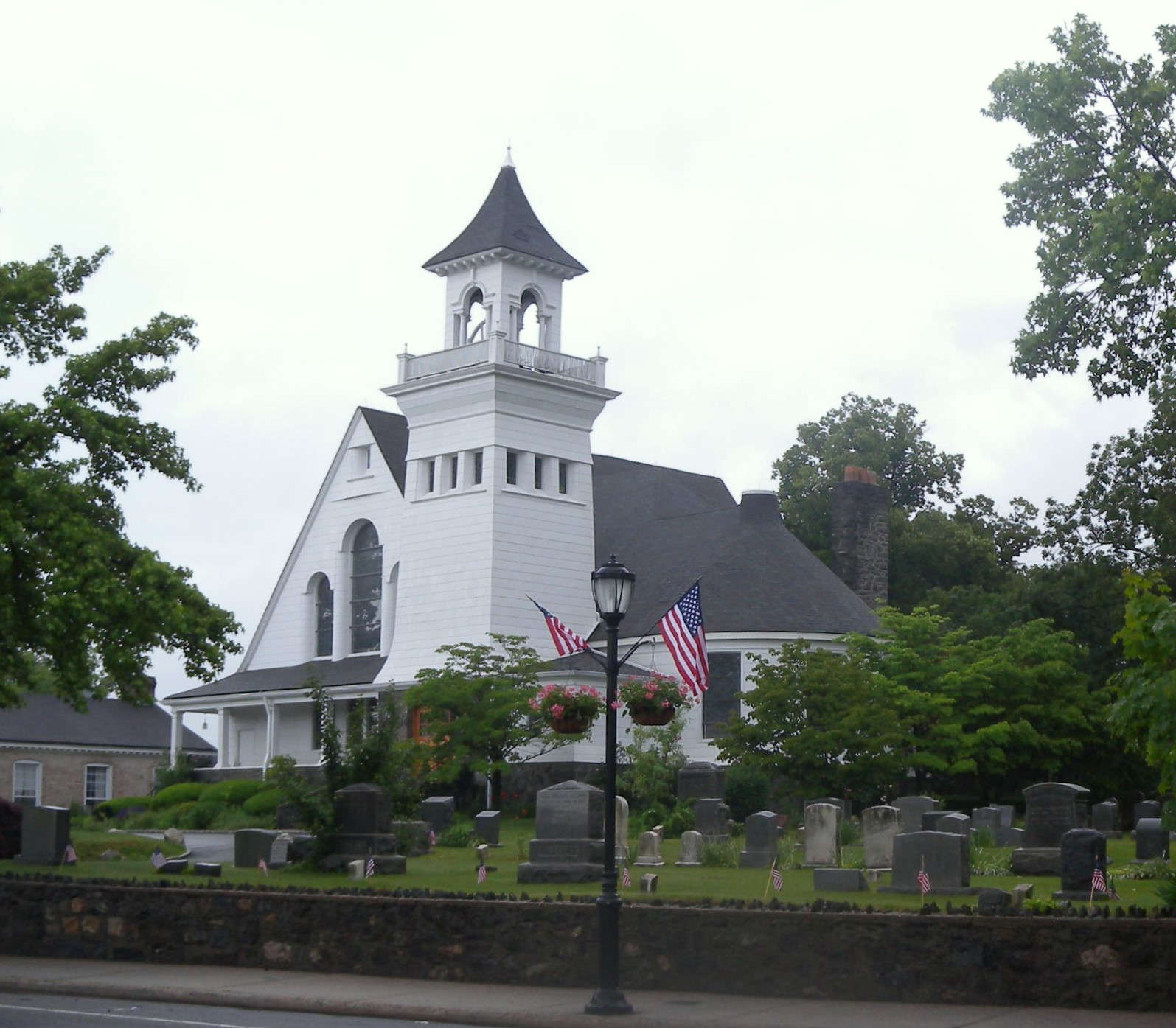 Looking northeast across Plandome rd at Community Reformed Church on a rainy morning.